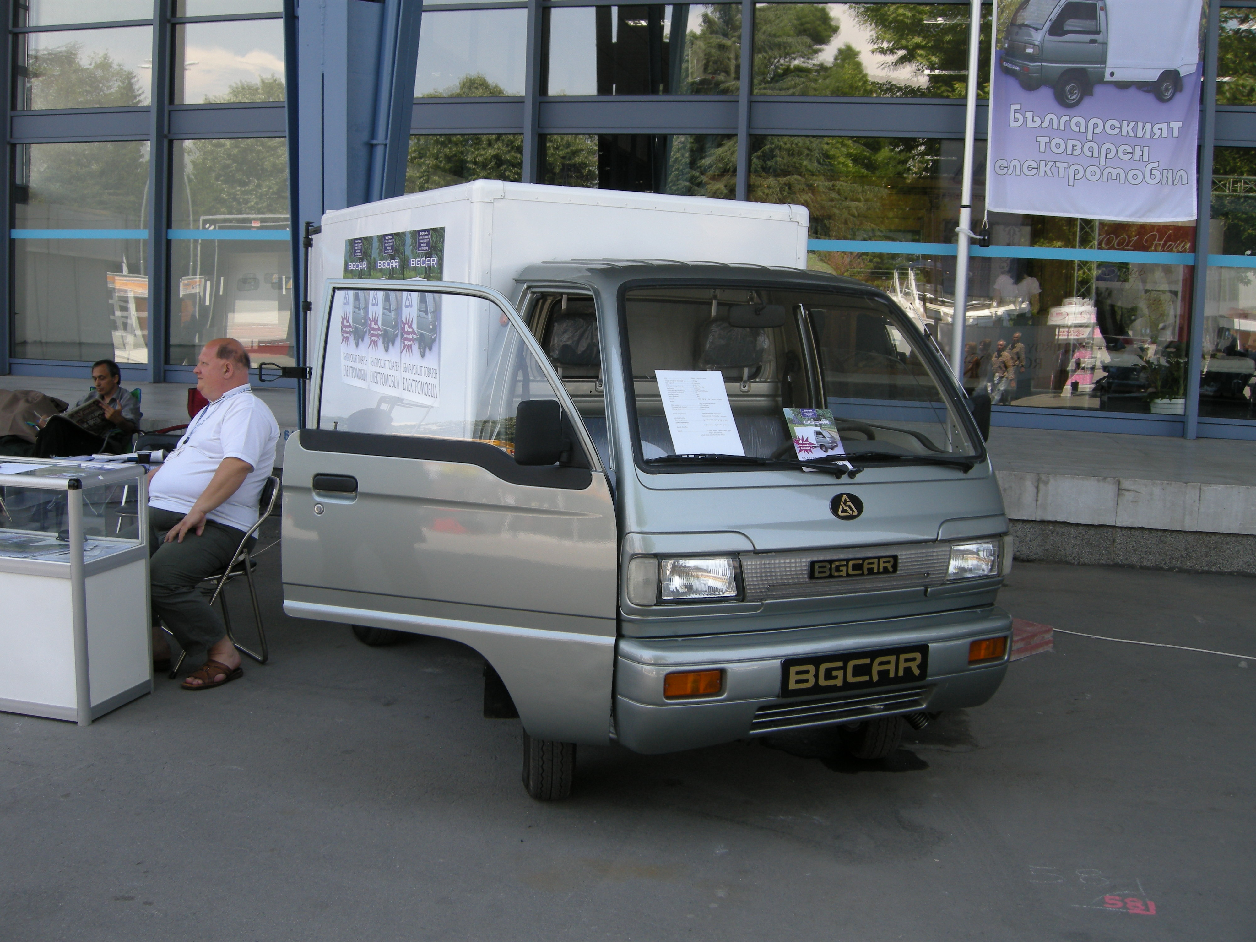 Bulgarian electrically-powered cargo vehicle "BGCar".